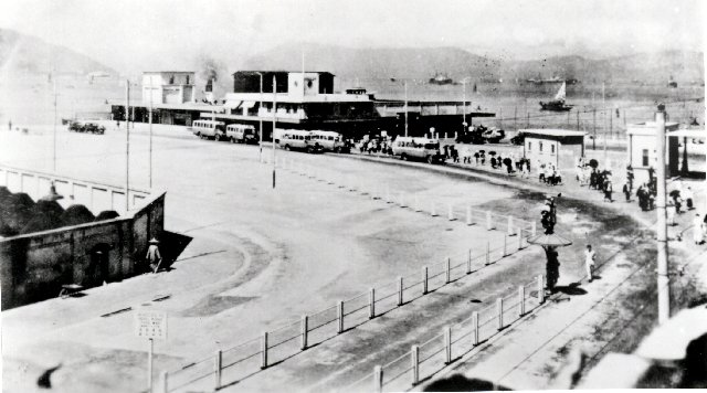 approach to Jordan Road vehicular-ferry pier (E.1), looking southwest